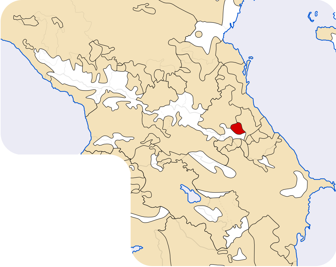 Location map of the Lak people.